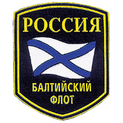 Russian Naval patch